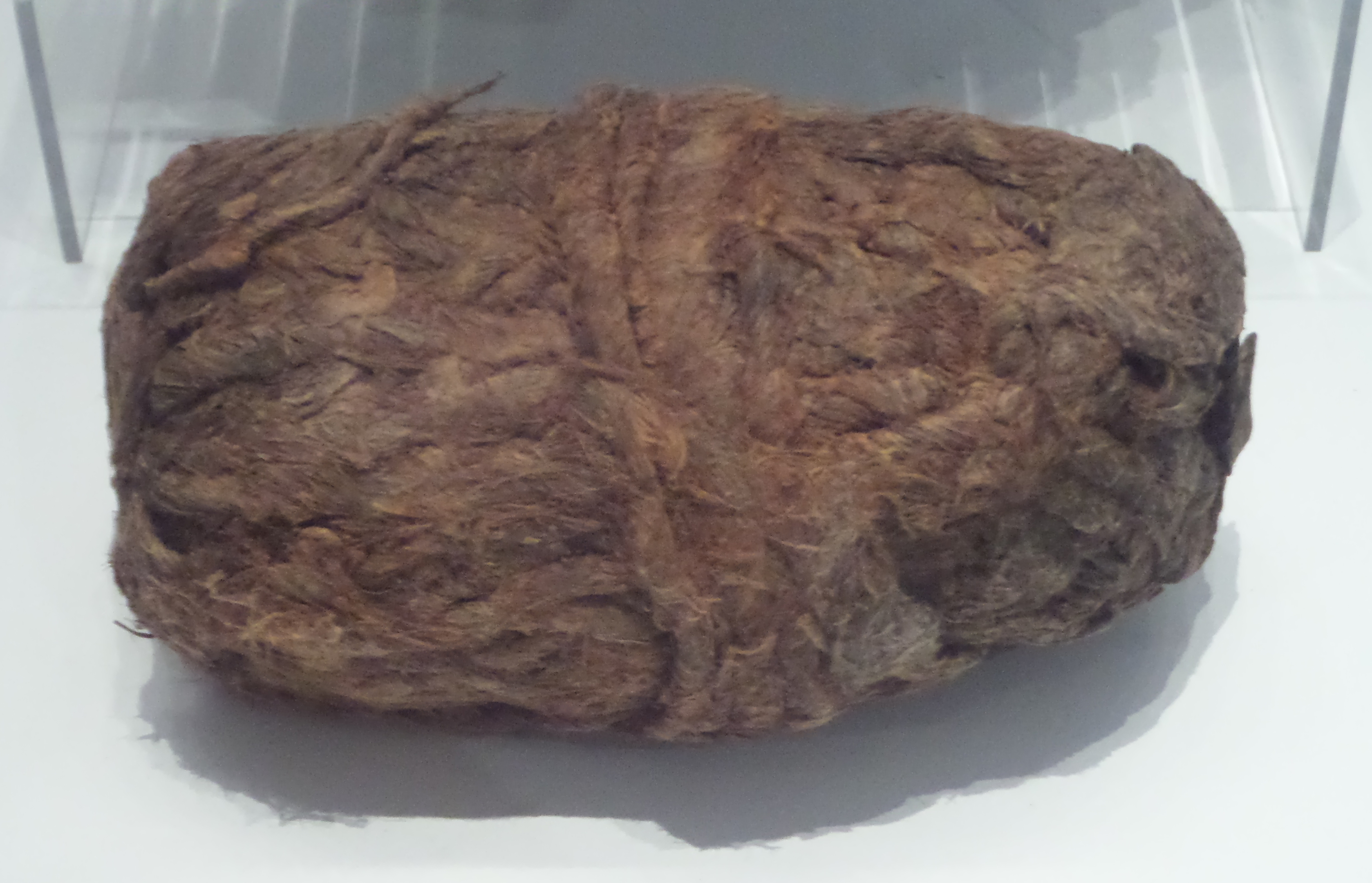 The Hanover was a two-masted brigantine packet ship owned and operated by the Falmouth Packet Company, which operated between 1688 and 1852. Hanover was 100-foot (30 m) long and was built in 1757. This item was recovered from the wreck of the Hanover and was found inside a loaded cannon.